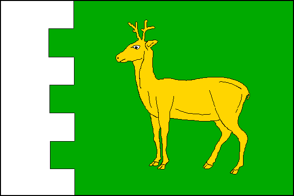 Municipal flag of Mořkov village, Nový Jičín District, Czech Republic.